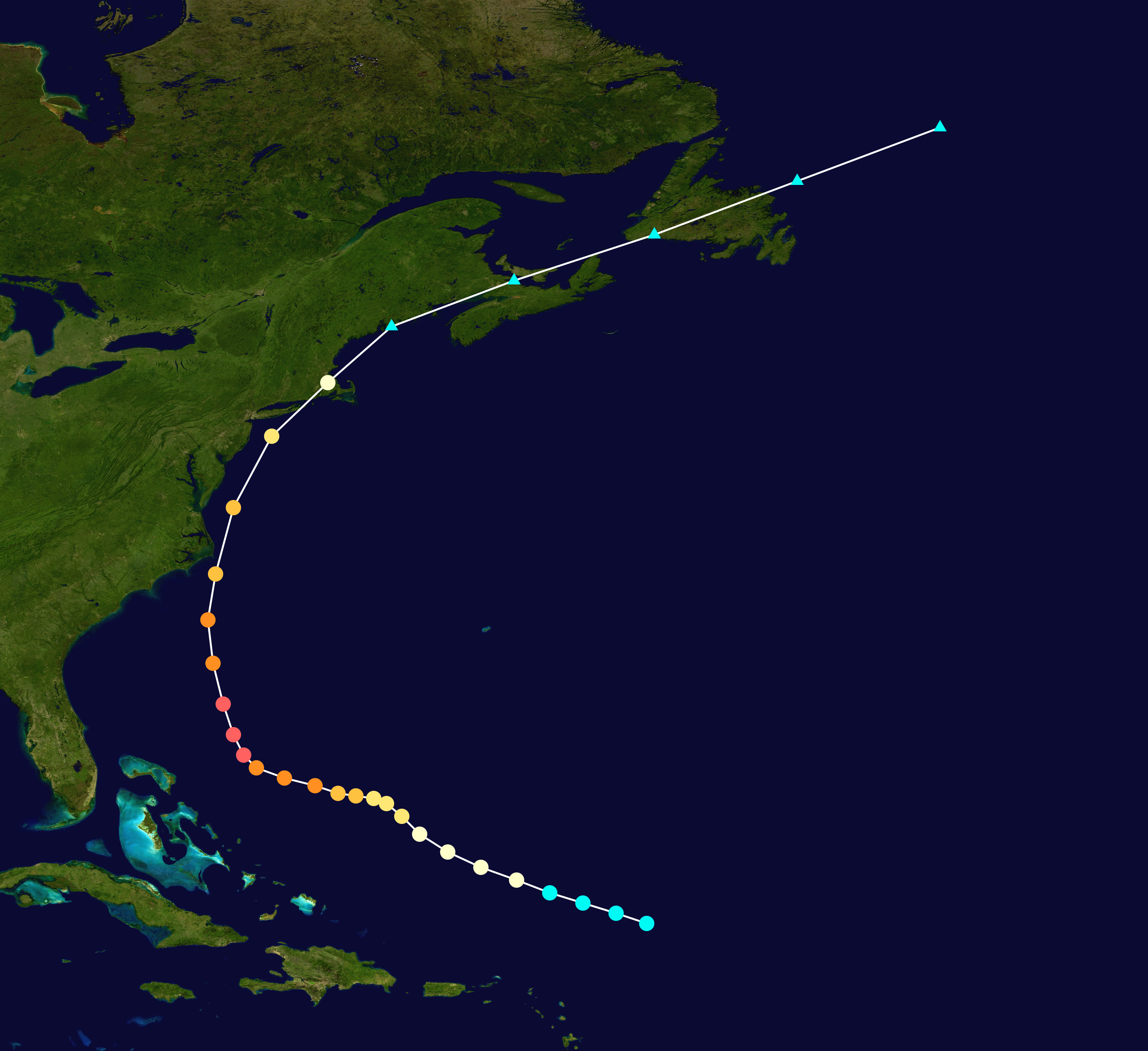 1944 Atlantic hurricane track. Uses the color scheme from the Saffir-Simpson Hurricane Scale.